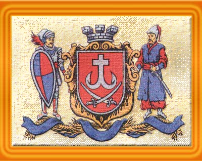 Coat of arms Vinnytsia Ukraine (Large)